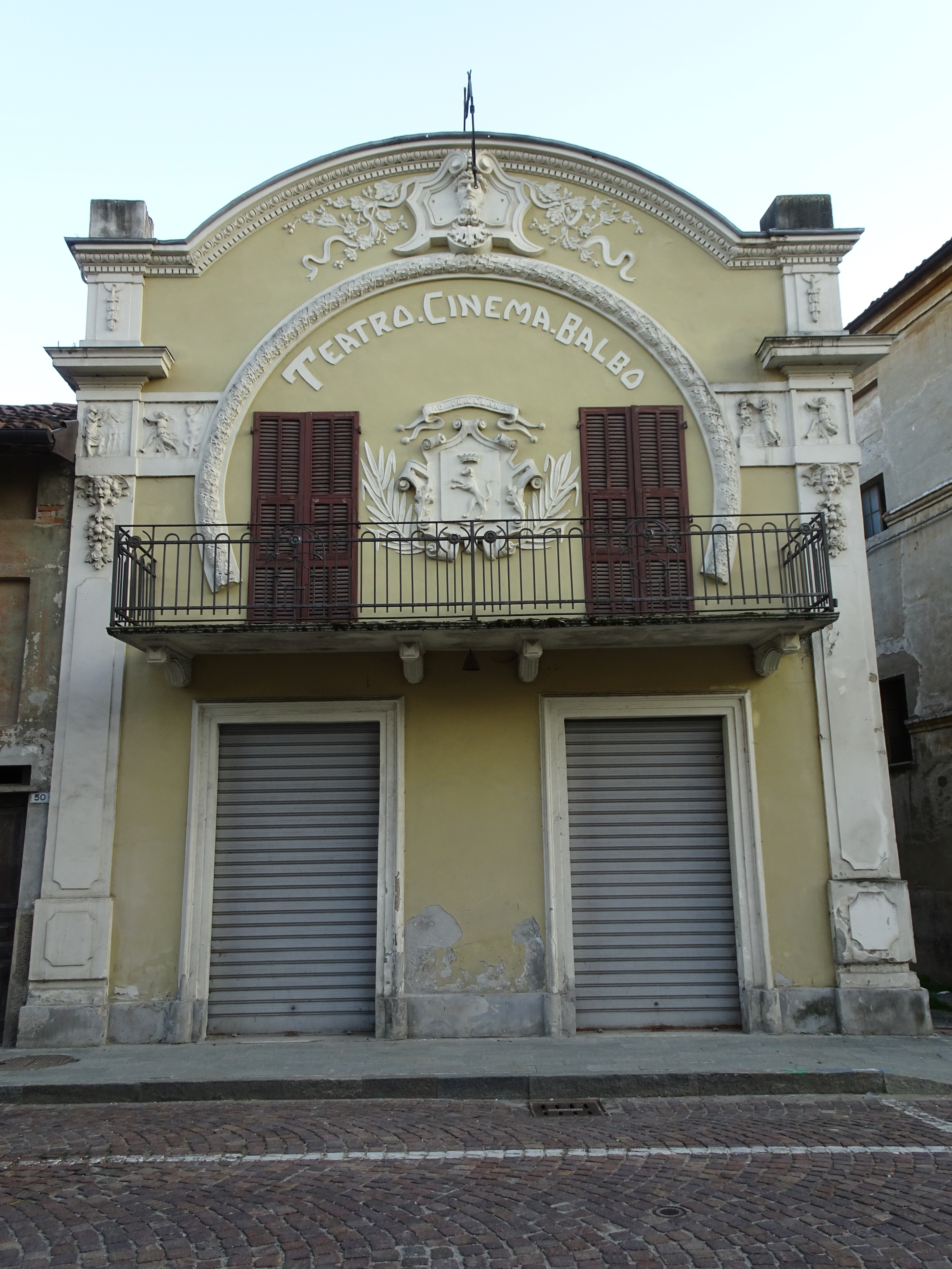 The view in front of the old Balbo Cinema-Thatre in Canelli.